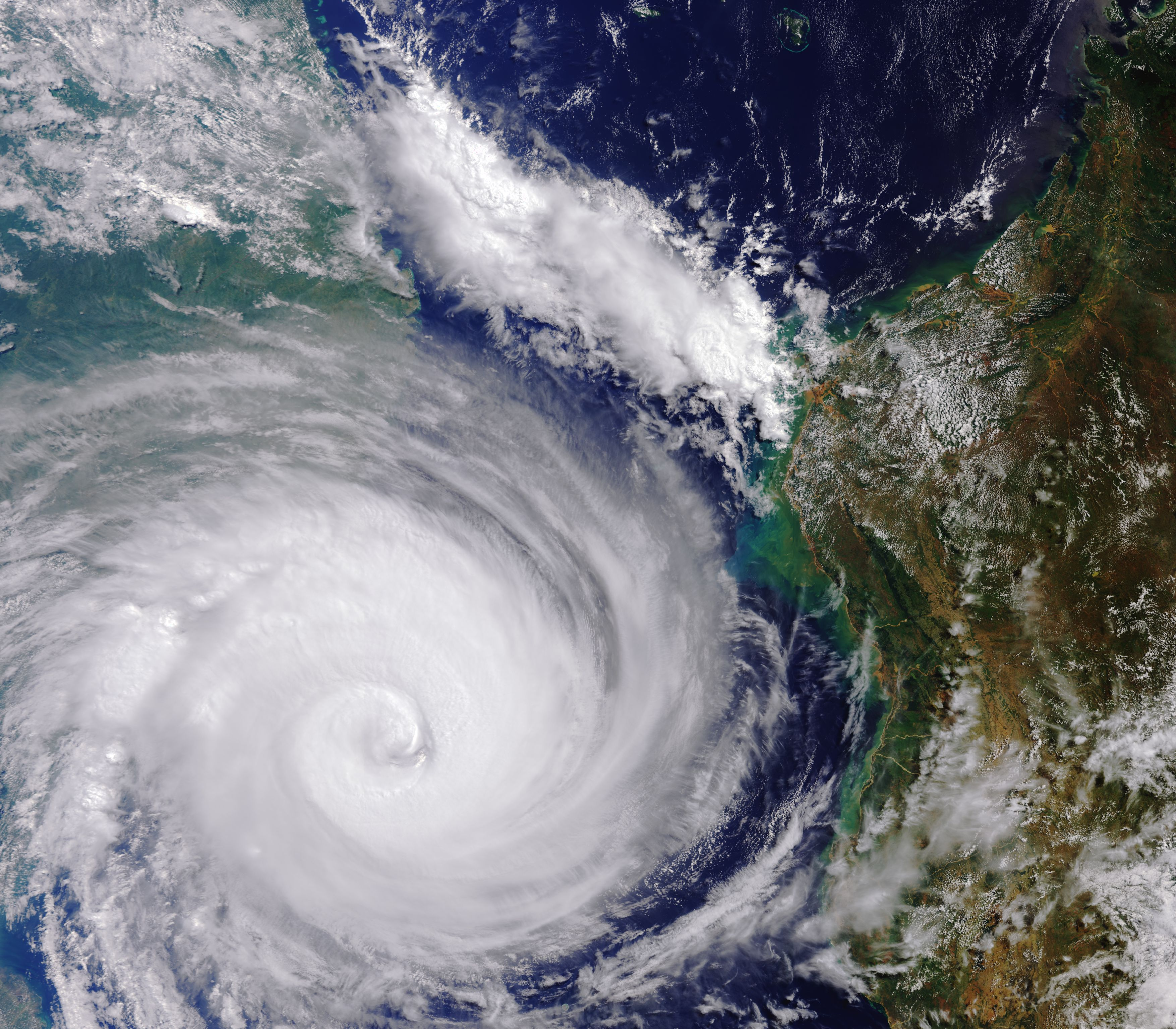 Captured by the Copernicus Sentinel-3 mission, this image shows Cyclone Idai on 13 March 2019 west of Madagascar and heading for Mozambique. Here, the width of the storm is around 800–1000 km, but does not include the whole extent of Idai. The storm went on to cause widespread destruction in Mozambique, Malawi and Zimbabwe. With thousands of people losing their lives, and houses, roads and croplands submerged, the International Charter Space and Major Disasters and the Copernicus Emergency Mapping Service were triggered to supply maps of flooded areas based on satellite data to help emergency response efforts.